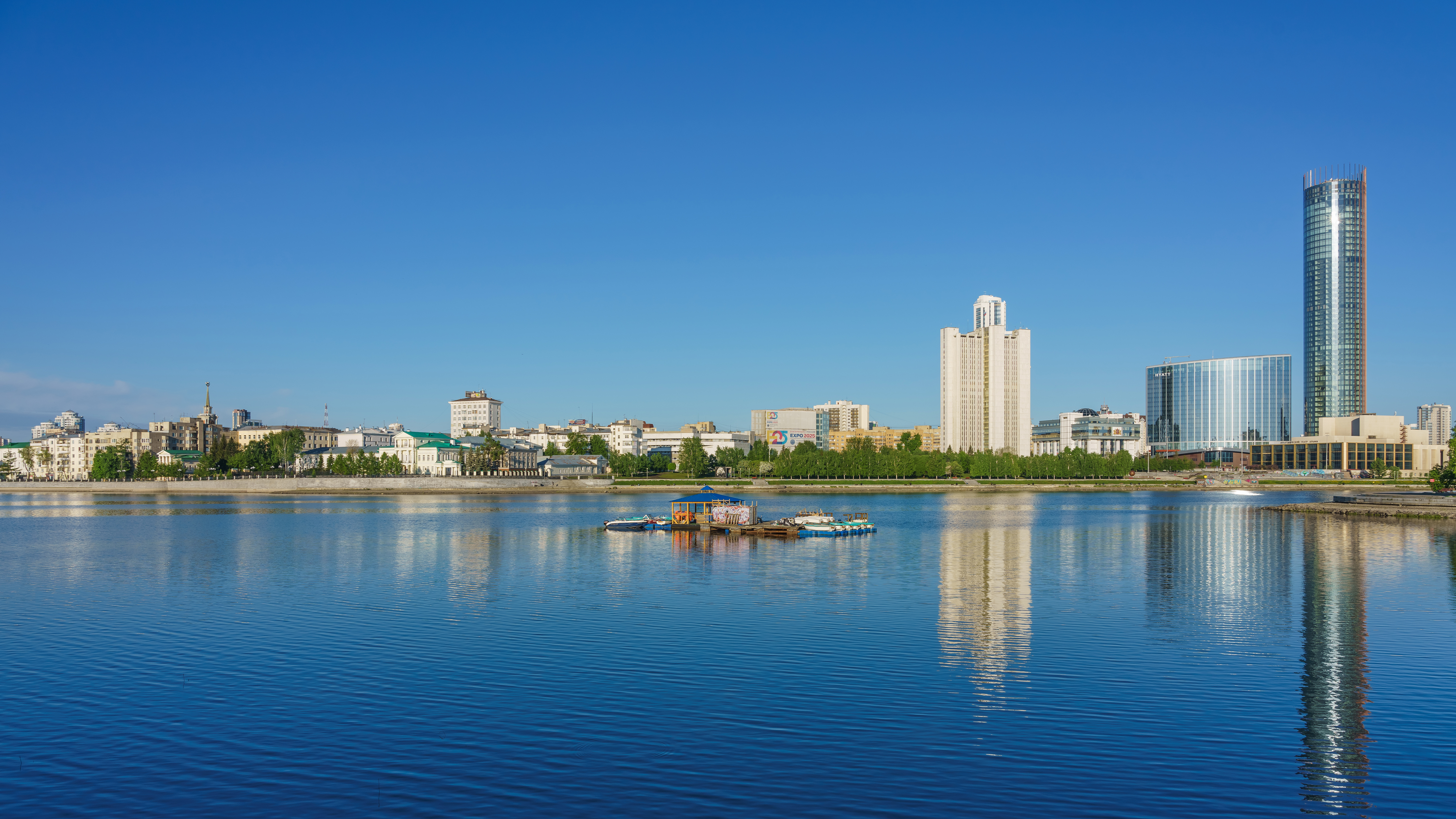 Skyline at the City Pond in Ekaterinburg, Russia